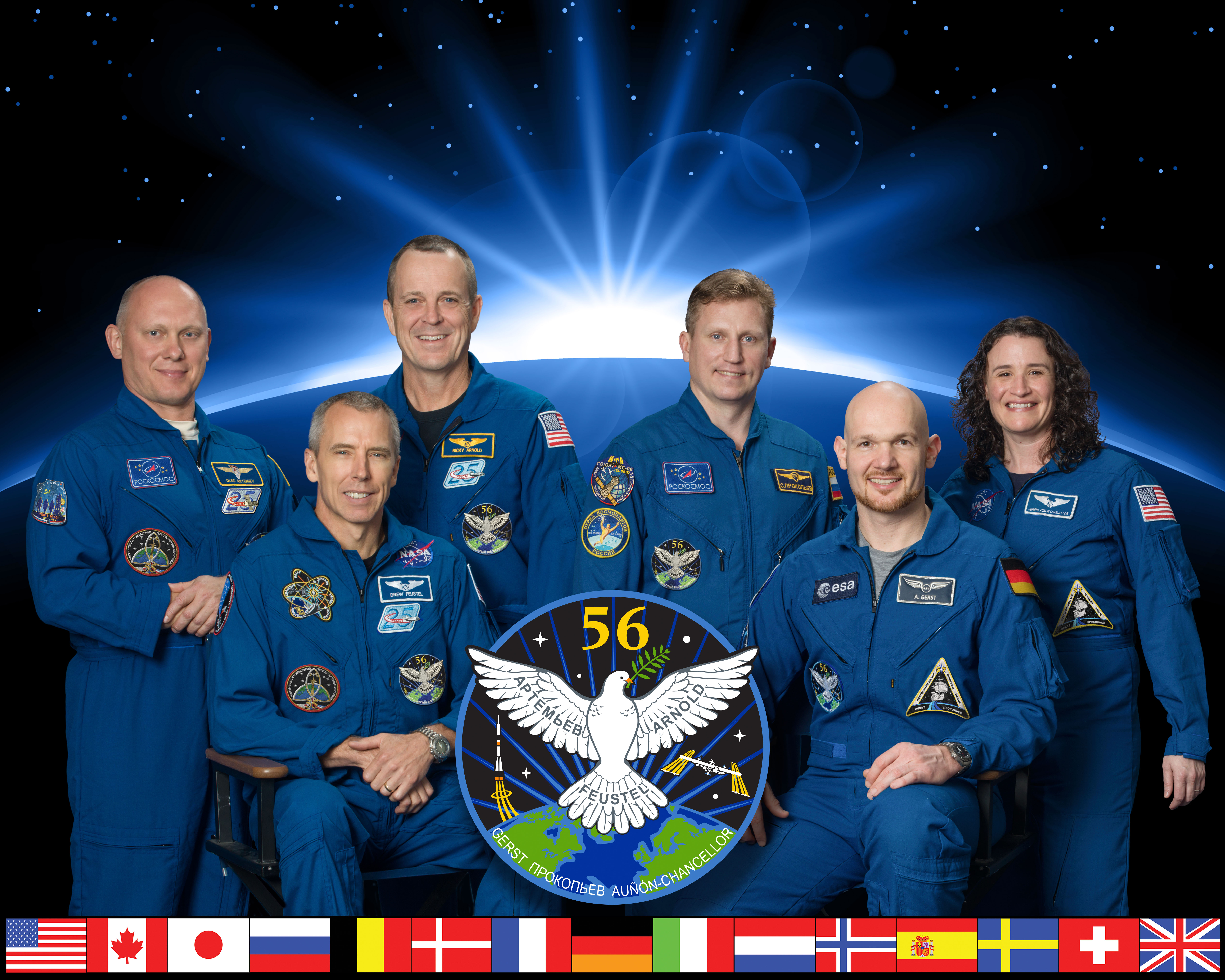 The official portrait of the Expedition 56 crew. In the front row from left are astronauts Drew Feustel of NASA and Alexander Gerst of the European Space Agency. In the rear from left are crew members Oleg Artemyev of Roscosmos, Ricky Arnold of NASA, Sergei Prokopev of Roscosmos and Serena Auñón-Chancellor of NASA.